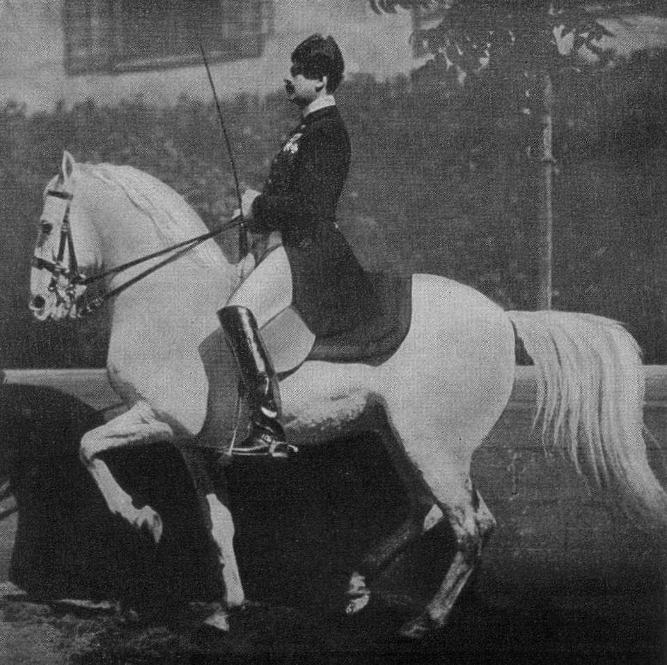 Chief Rider Johann Meixner performing the Piaffe.